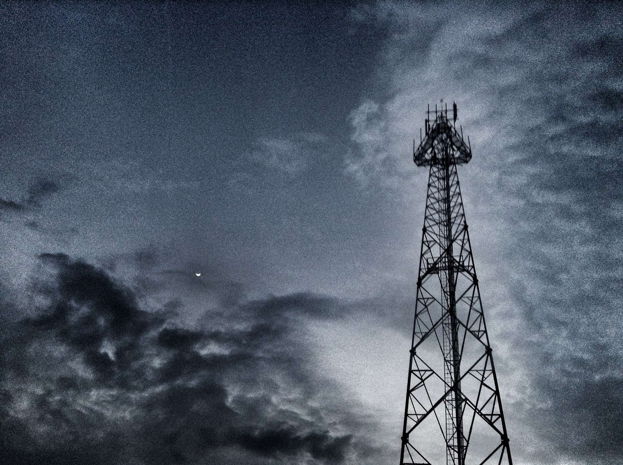 Antena de telefonia celular en San Pedro Yeloixtlahuaca